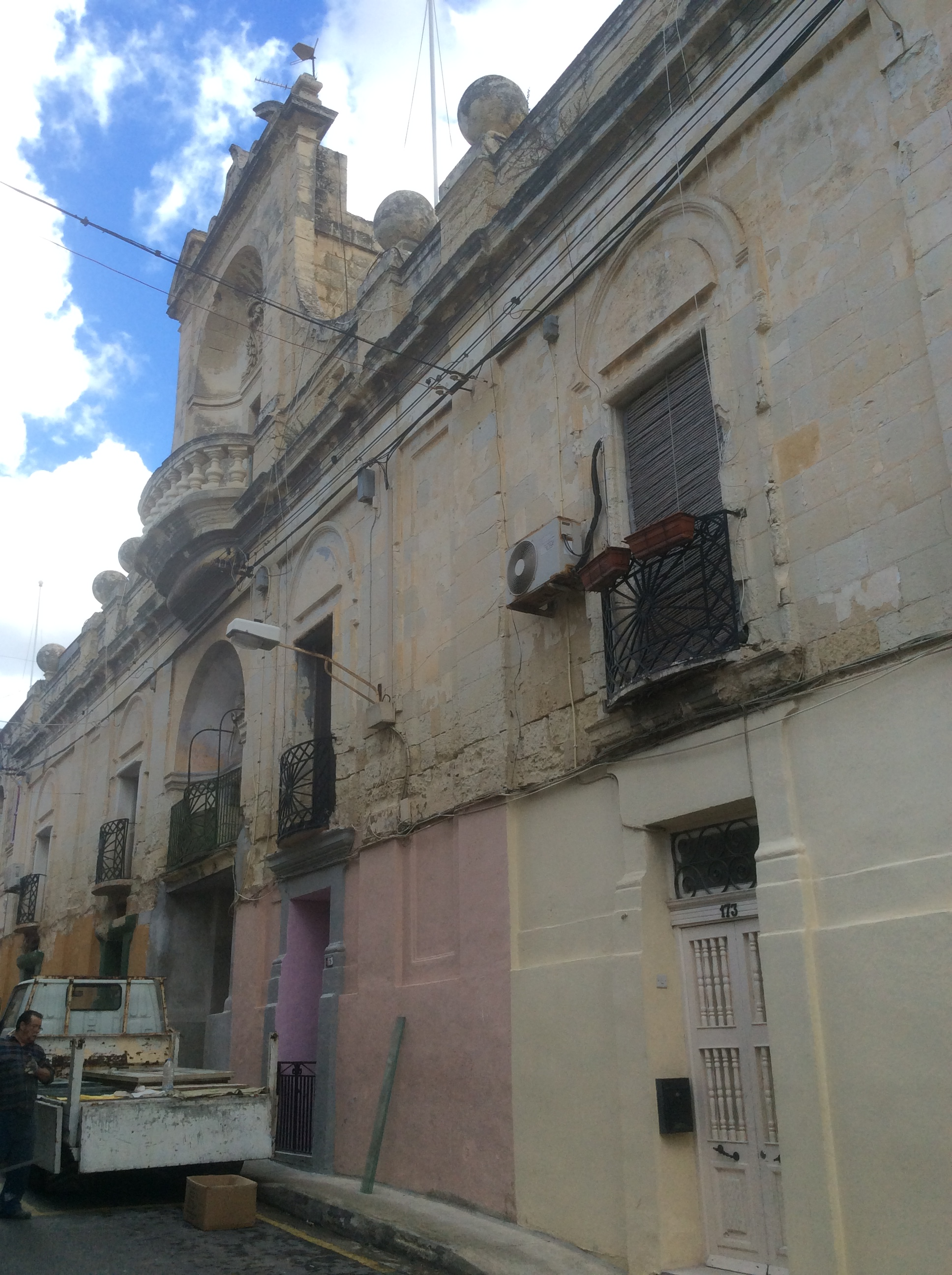 Palazzo Perellos, Paola, Malta